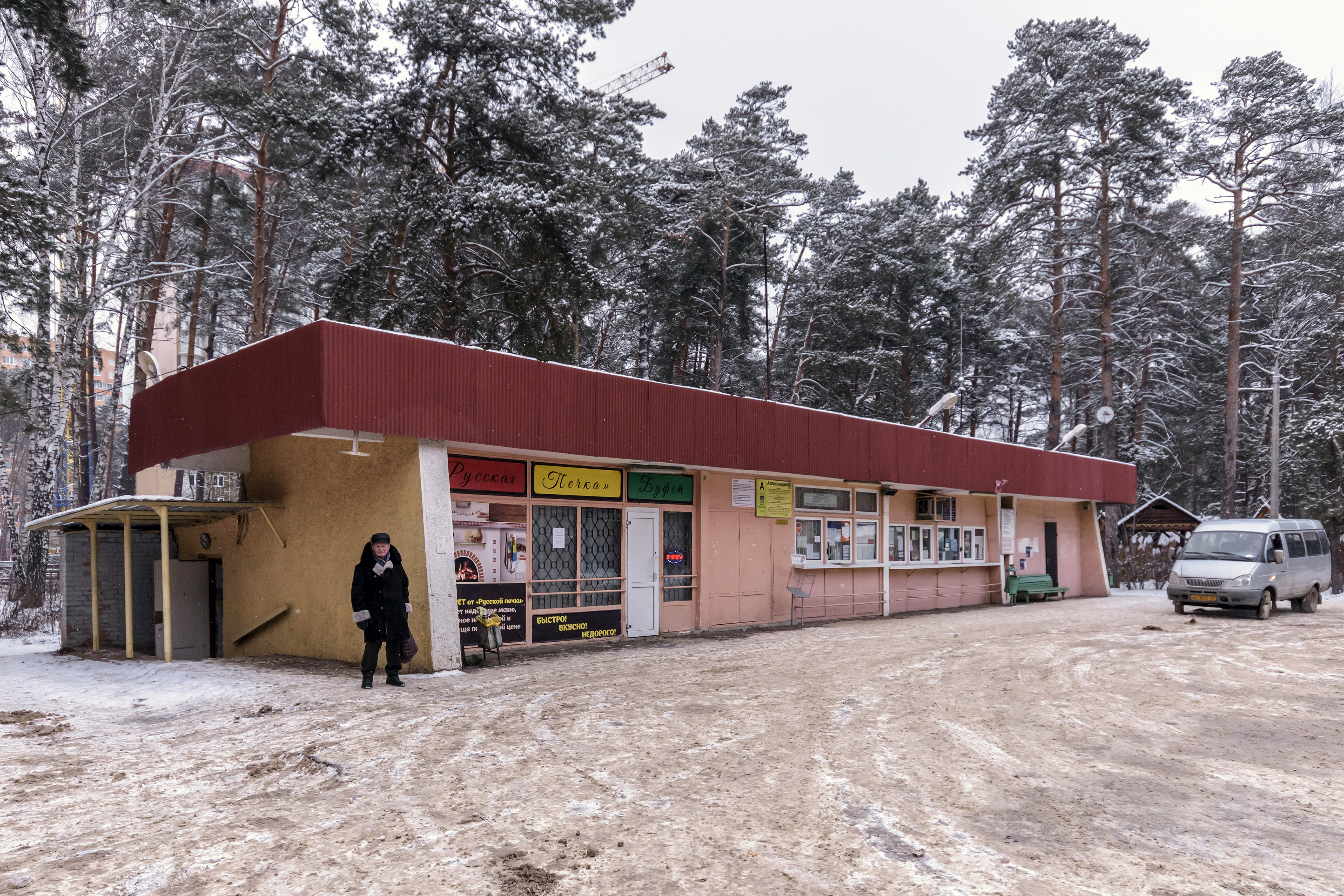 Bus Station in Protvino town of Moscow Oblast, Russia